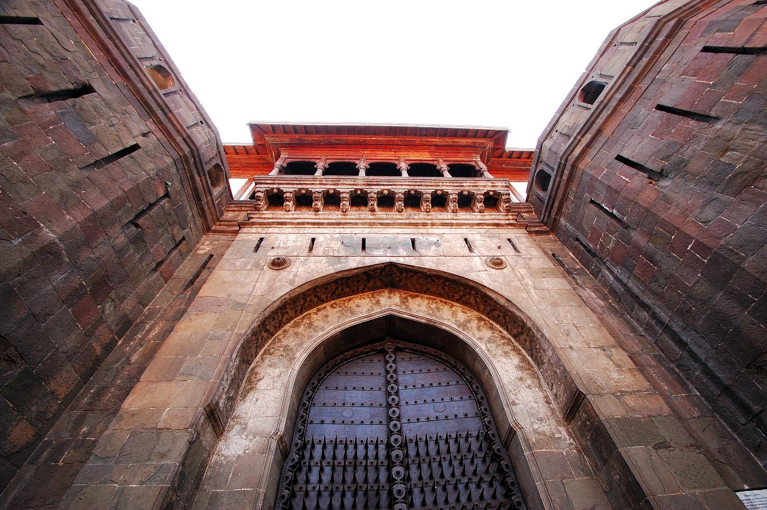 Front gate of Shaniwar Wada